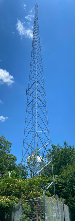 WLTA Tower as of June 2020